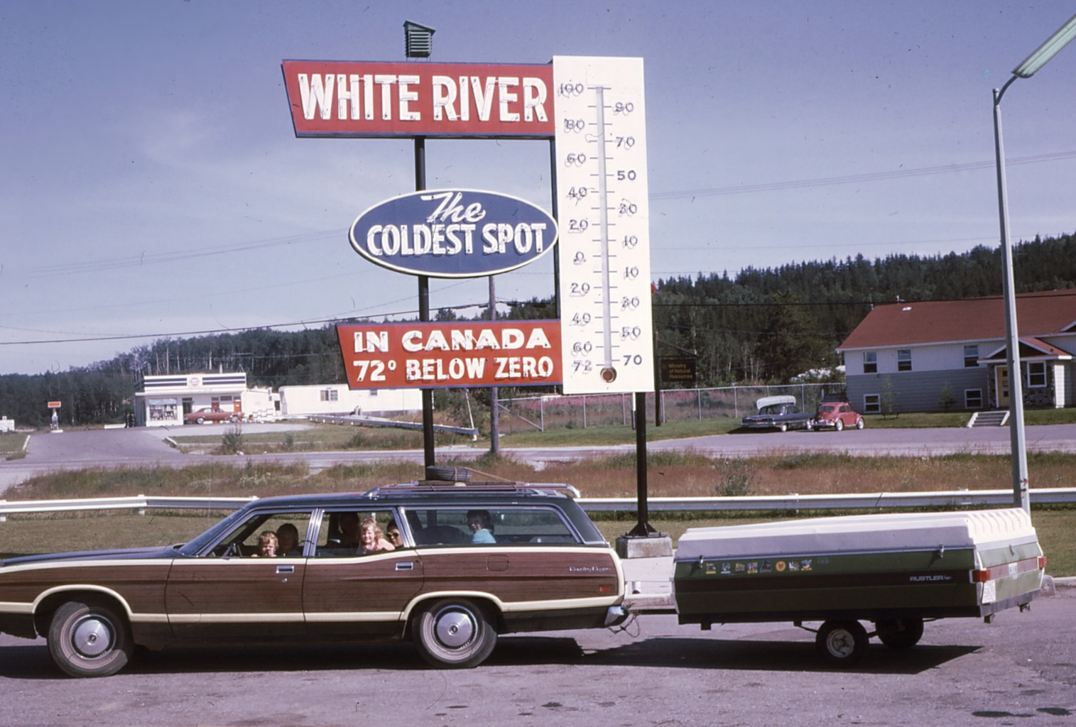 A highway sign in White River, Ontario promoting the town as "The Coldest Spot in Canada – 72 below Zero". The photo was taken in 1973 when Fahrenheit was still the most commonly used temperature scale in Canada, being replaced by Celsius later in the decade.White River advertises itself as "The Coldest Spot in Canada" with recorded temperatures as low as −72 °F (−58 °C). However, this is a myth as the coldest temperature in Canada has been recorded in Snag, Yukon, at −62.8 °C on 3 February 1947. Even in Ontario, the coldest place is Iroquois Falls at −58.3 °C (23 January 1935), which is the lowest temperature reported in Eastern Canada too. White River's reputation for coldest area is probably based on the fact that for many years its reported temperature was deemed "the coldest in the nation today" from the handful of stations reporting daily temperature extremes in newspapers and on radio, climatological stations data being only available monthly to Environment Canada.